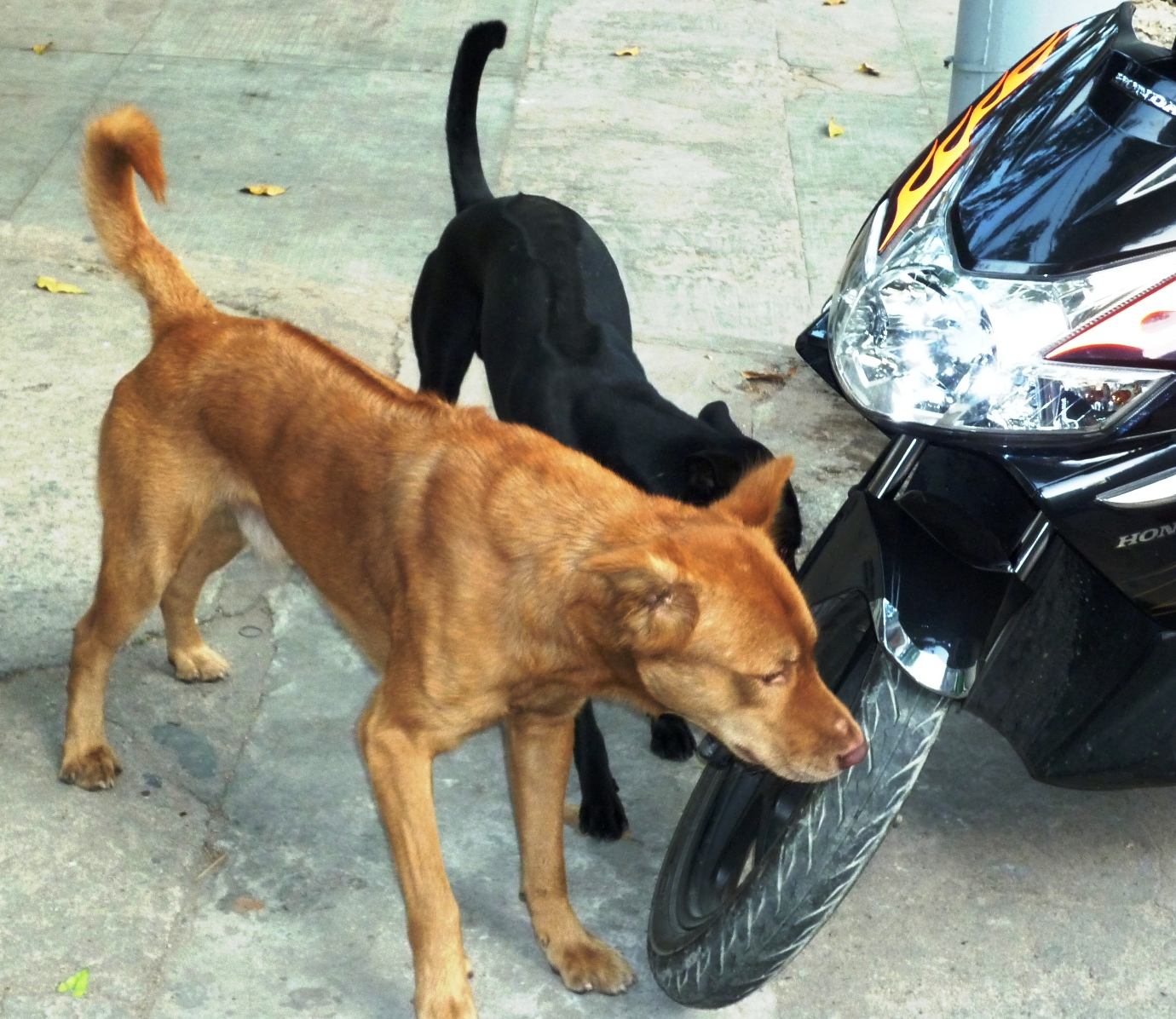 Original colour hair of Phú Quốc dogs